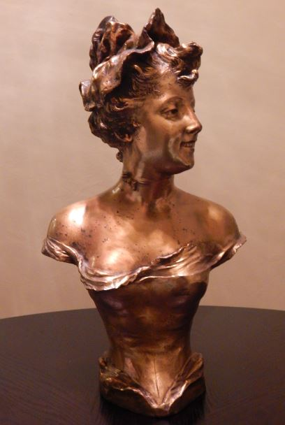 An art nouveau bronze sculpture of a young lady with 24 carat gold gilding by German sculptor Franz Iffland (1862-1935). The bronze is signed and dated 1893.